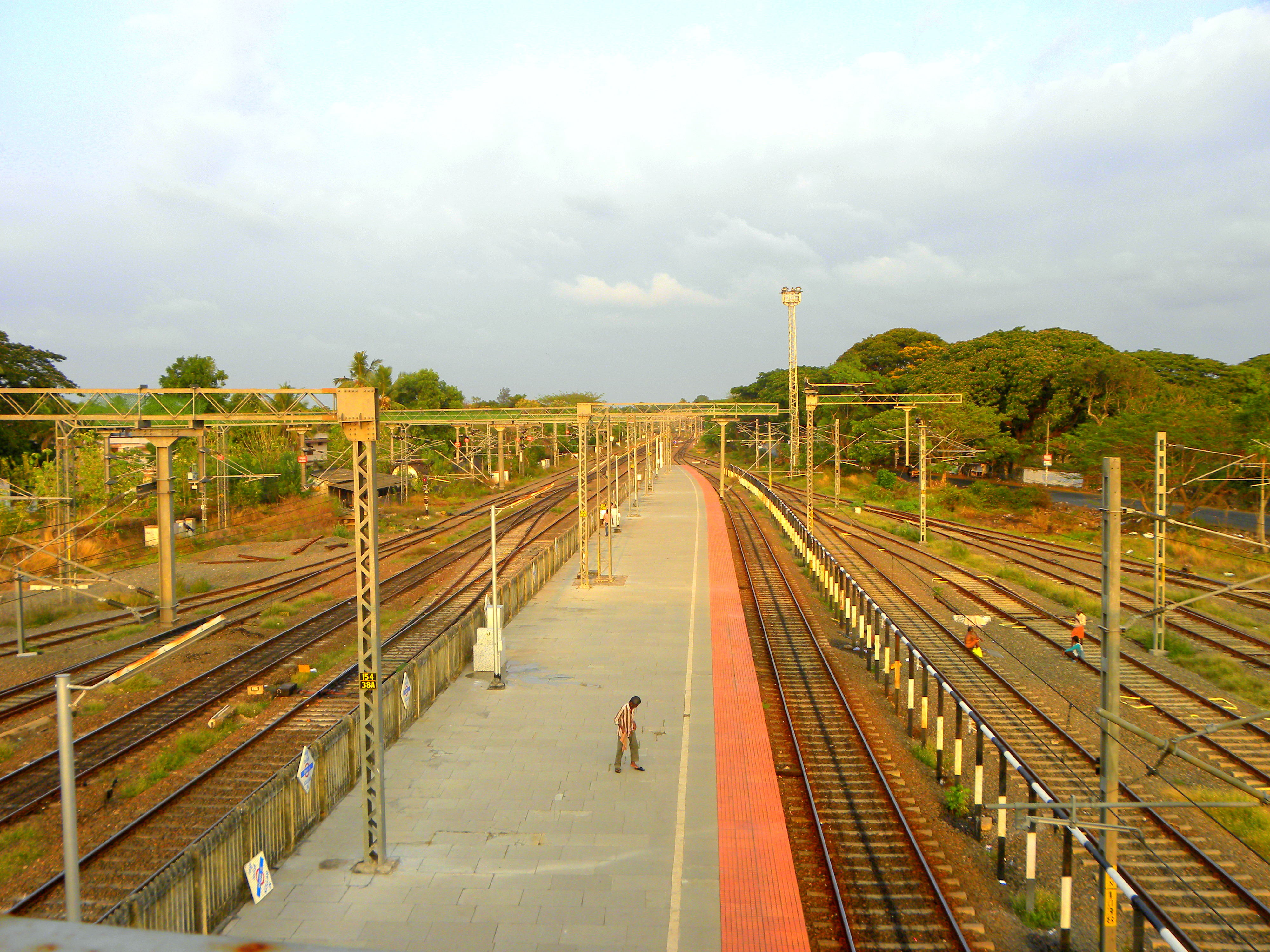 Kollam railway station is boasting a record for having second longest railway platform in the world